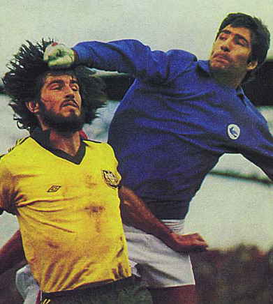 Nasser Hejazi in Iran's '78 World Cup qualification match against Australia in Melbourne on Aug 14th, 1977